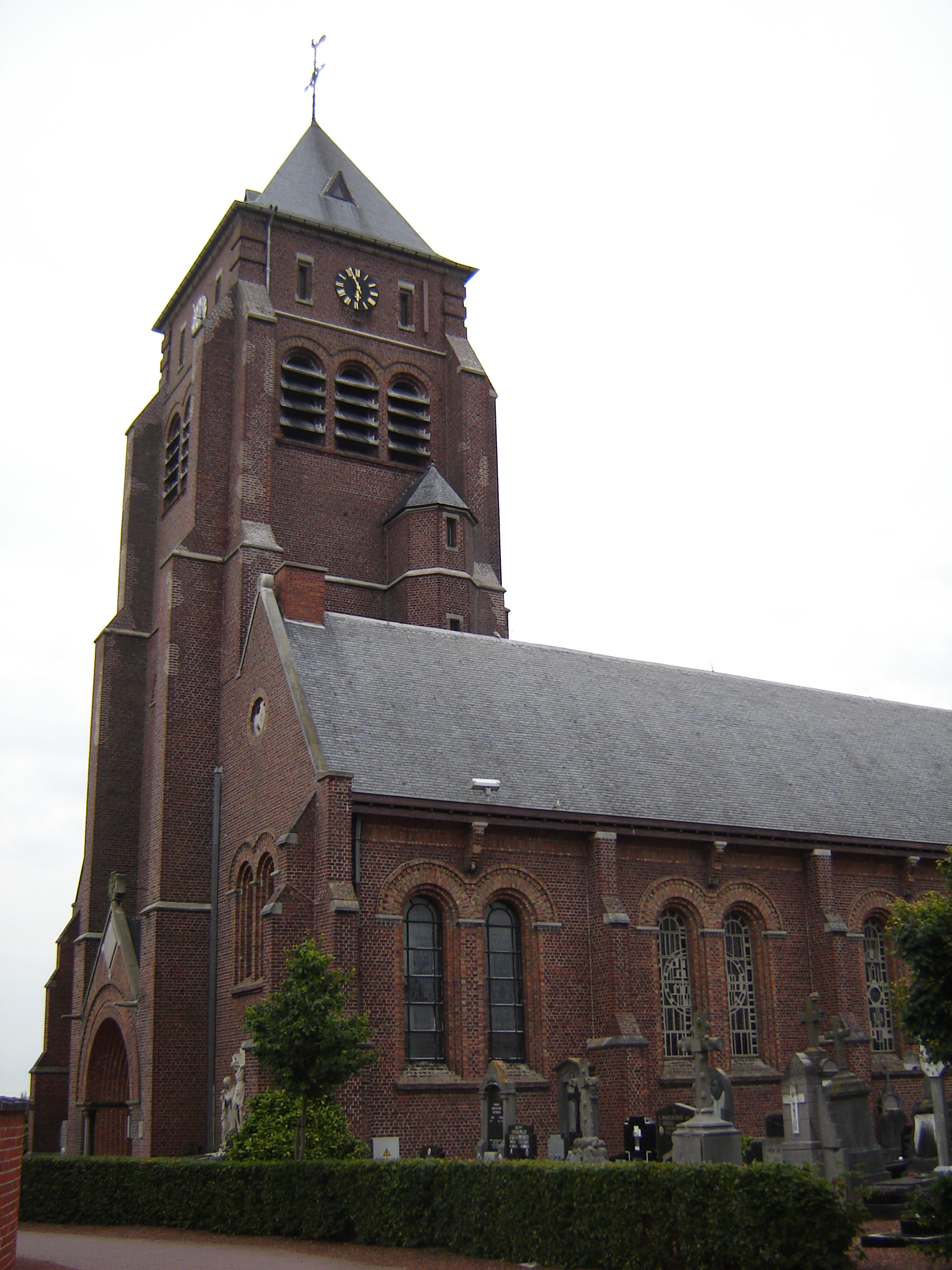 Church of Saint Lawrence in Kemmel, Heuvelland, West Flanders, Belgium.